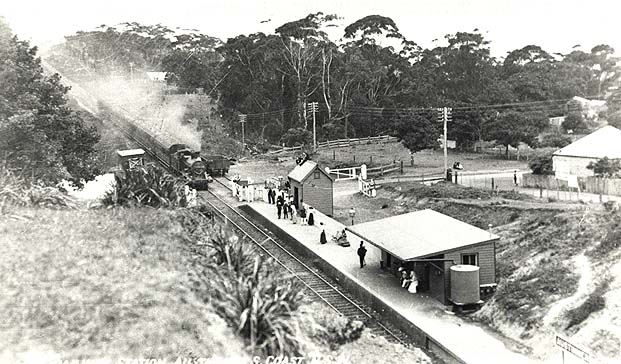 Austinmer Railway Station Dated: c. 1914 Digital ID: 17420_a014_a014000839 Rights: We'd love to hear from you if you use our photos. Many other photos in our collection are available to view and browse on our website using Photo Investigator.